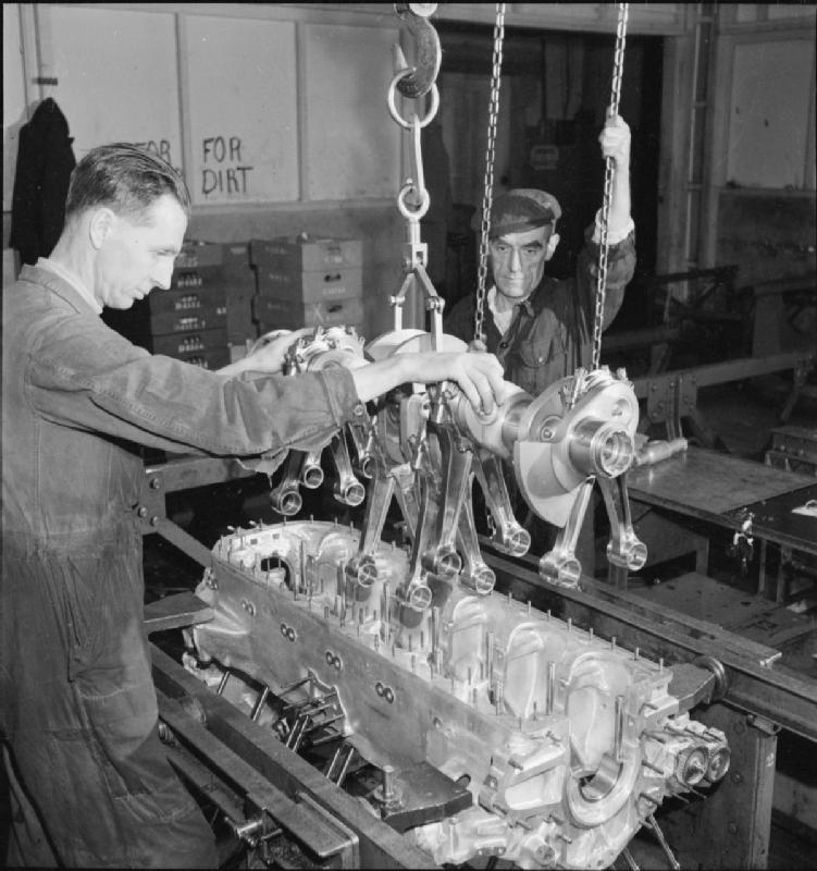 A Merlin Is Made- the Production of Merlin Engines at a Rolls Royce Factory, 1942 Two workers at this aircraft engine factory gently lower the Crankshaft Assembly into the Crank Case.